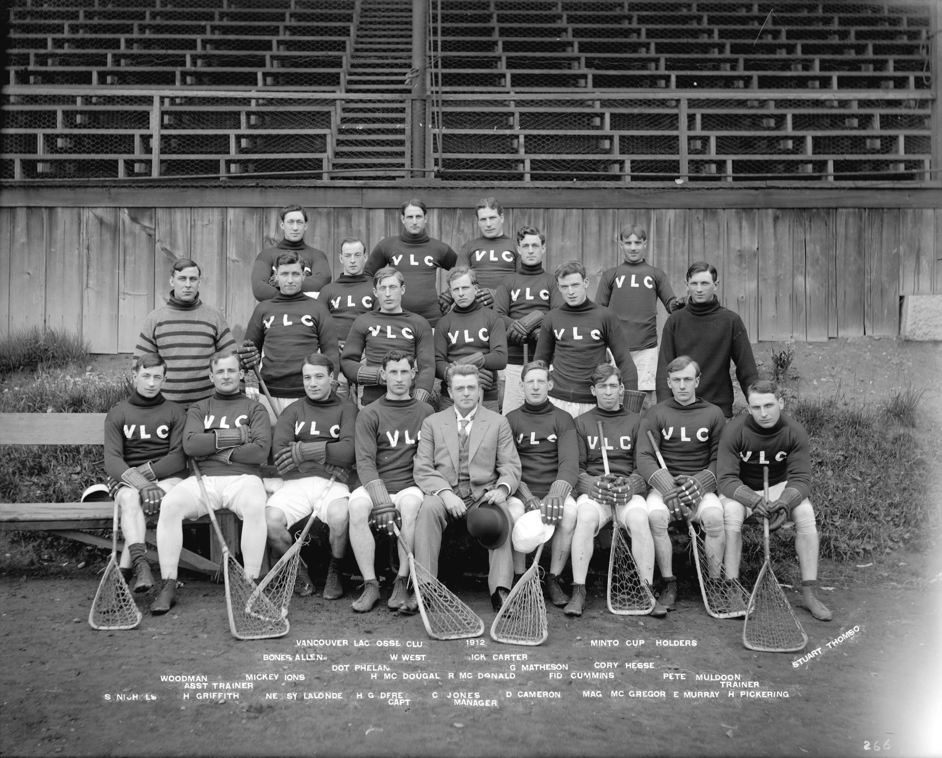 Vancouver Lacrosse Club, Minto Cup holders, in a 1912 team photo. Top row, left to right: Bones Allen, William West, Nick Carter. Third row, left to right: Dot Phelan, George Matheson, Cory Hesse. Second row, left to right: assistant trainer H. Woodman, Mickey Ion, H. McDougal, Ran McDonald, Fid Cummings, trainer Pete Muldoon. Bottom row, left to right: Sibby Nichols, Harry Griffith, Newsy Lalonde, Harry Godfrey, manager C. Jones, Don Cameron, Mag MacGregor, Ernie Murray, Harry Pickering.